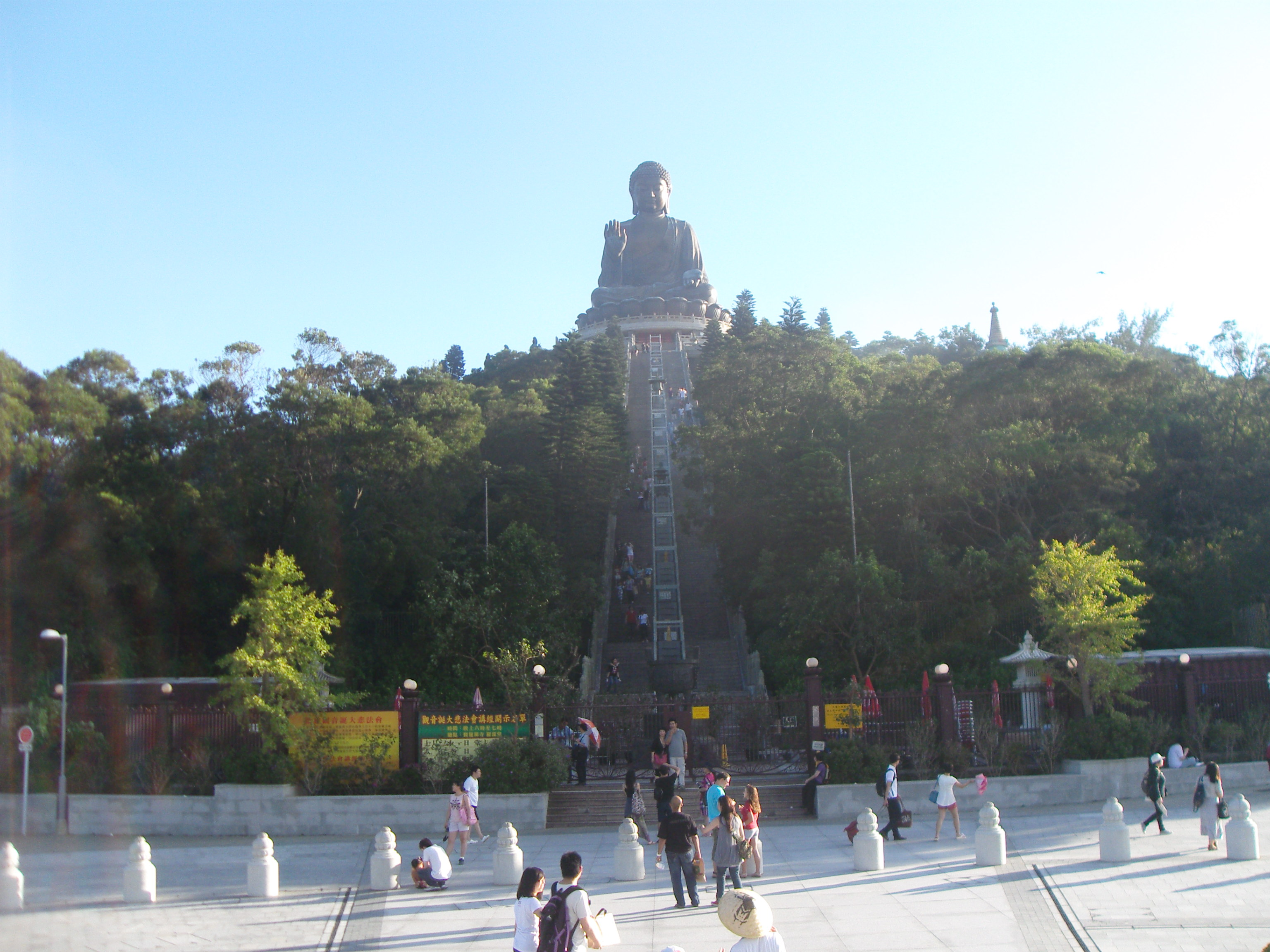 View of Tian Tan Buddha from near the Ngong Ping 360 station.